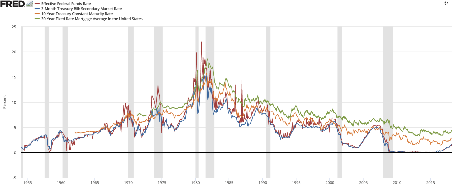 Federal Funds Rate and interest rates